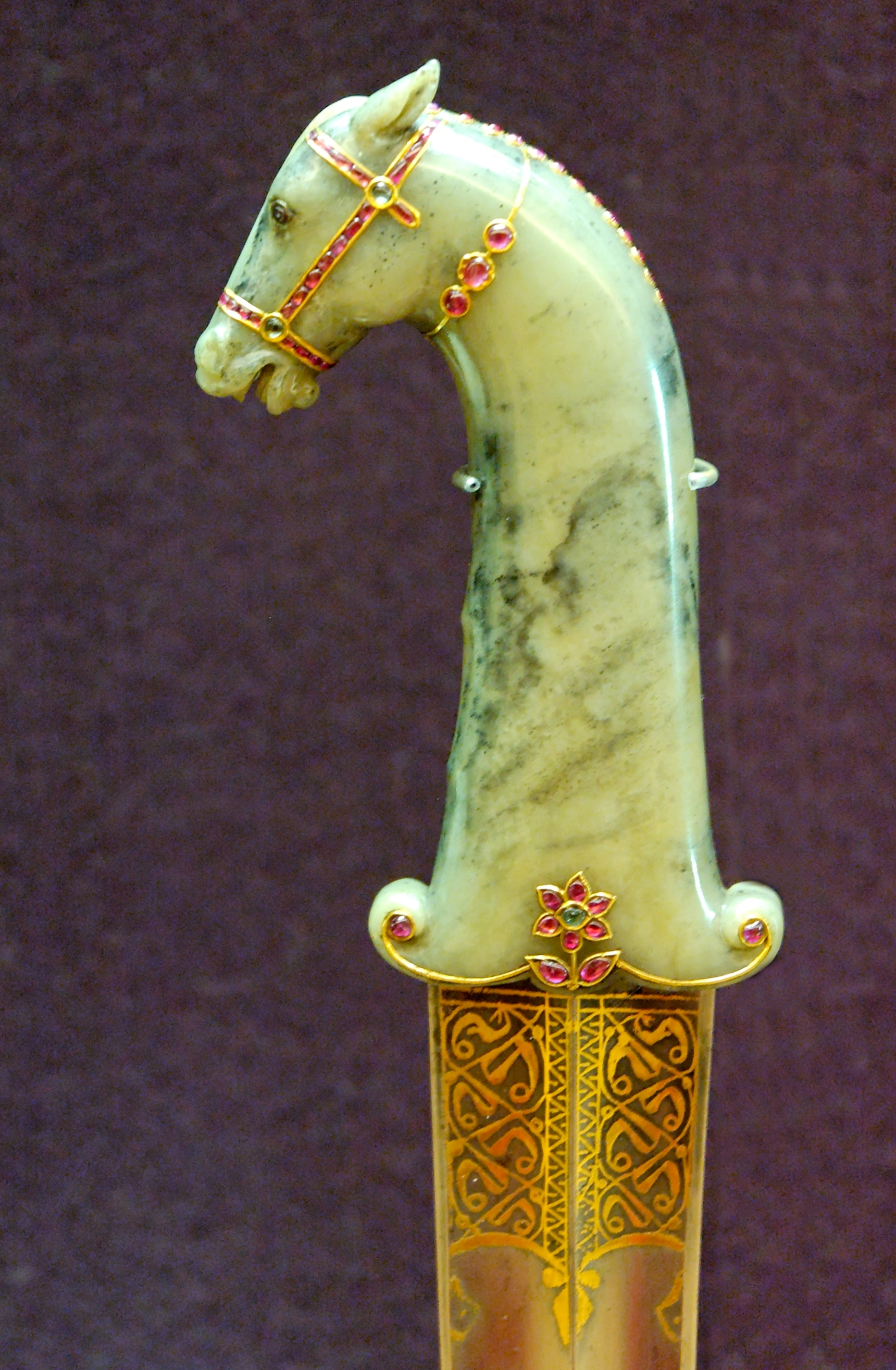 Dagger with horse head pommel, detail. India, Mughal dynasty, 17th century. Blade: Damascus steel inlaid with gold; hilt: jade with carved decoration, inlaid with gold and semi-precious stones.